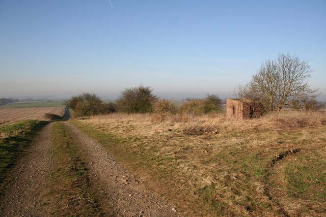 Vale of Trent View from the cliff near Hare's Wood, the buildings to the right are a disused sewage treatment works